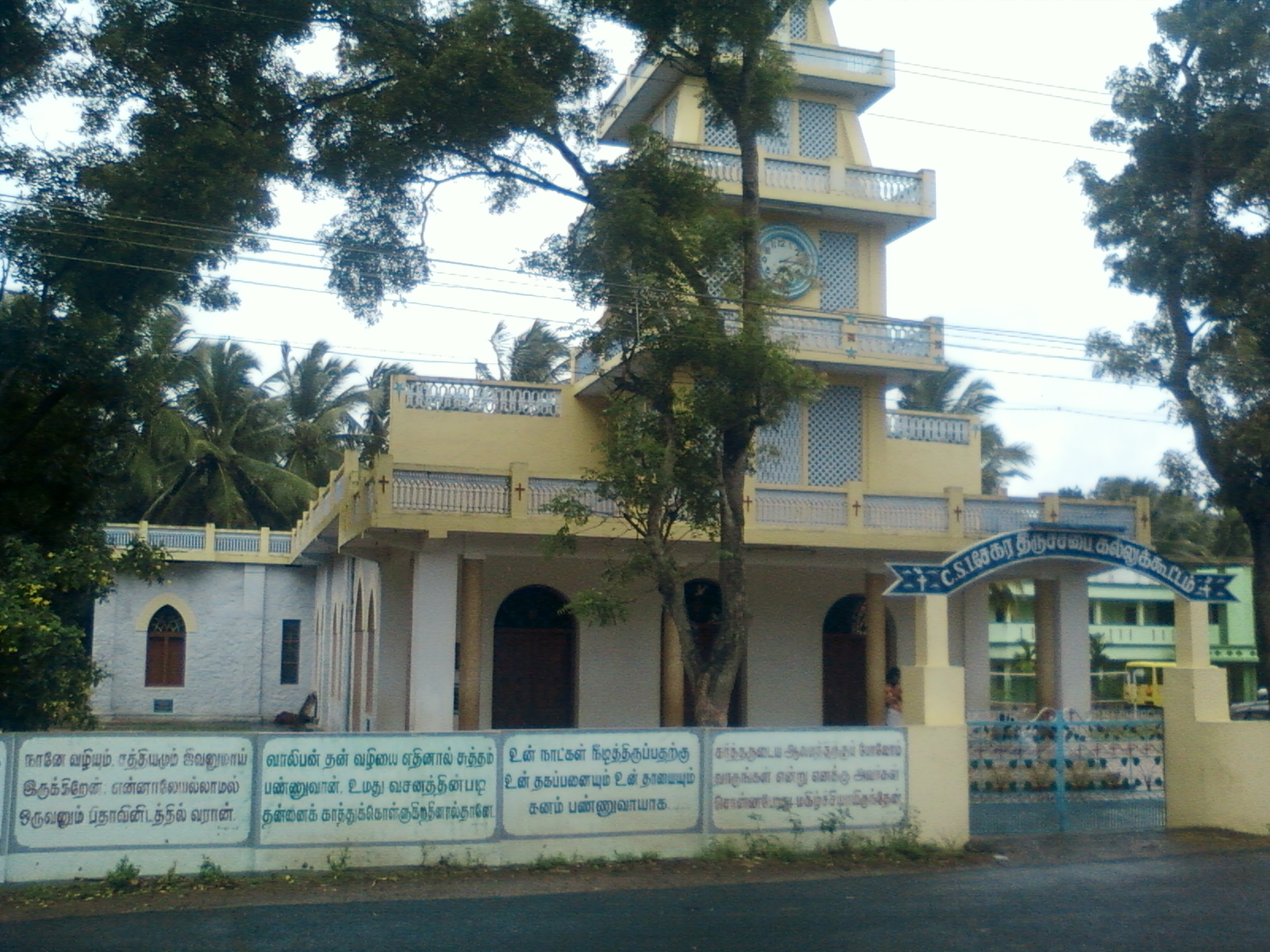 kallukuttam CSI CHURCH situated along state highway,it is one of the notable landmarks of kallukootam.